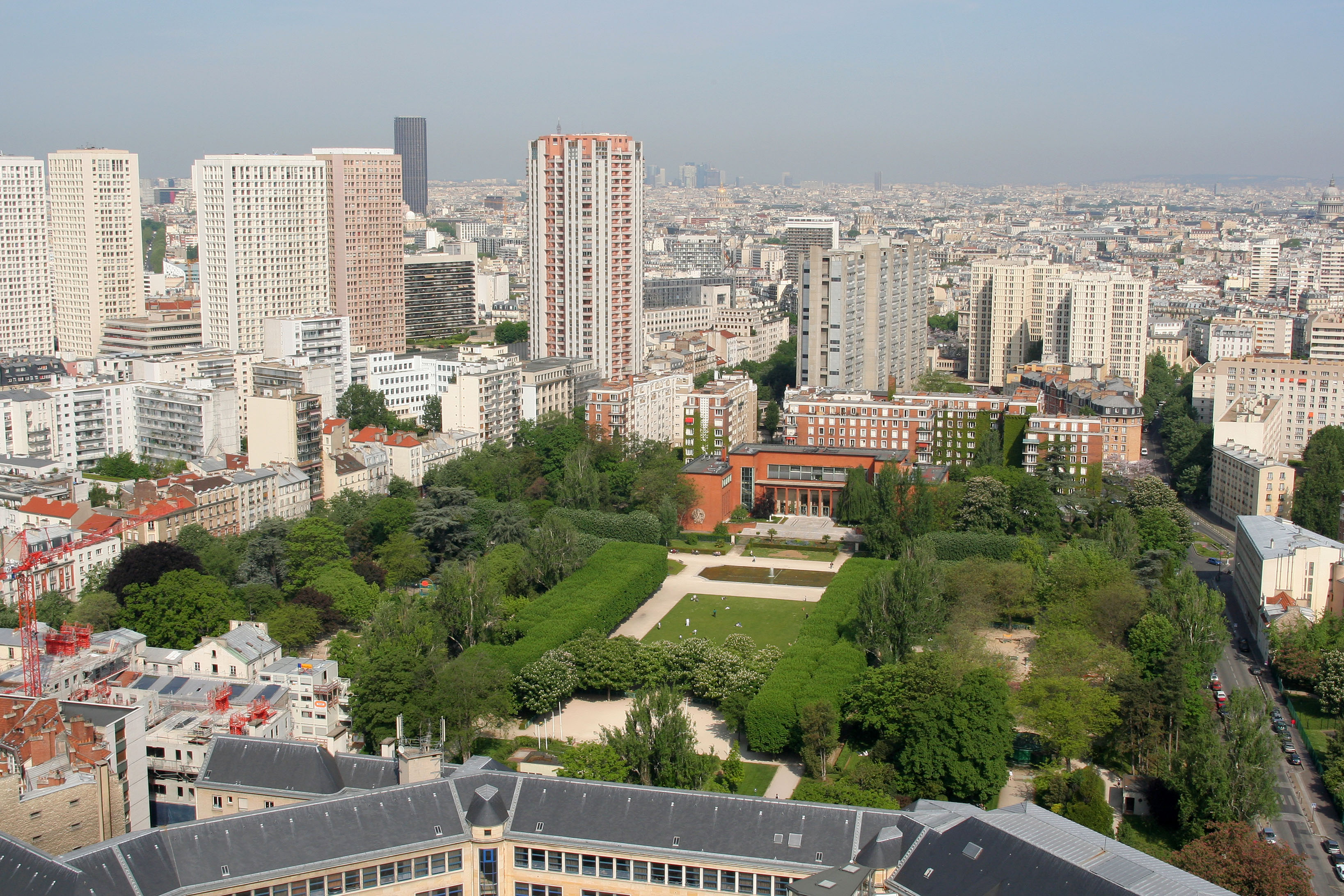 Parc de Choisy as seen from the tour Athènes, Paris, France.